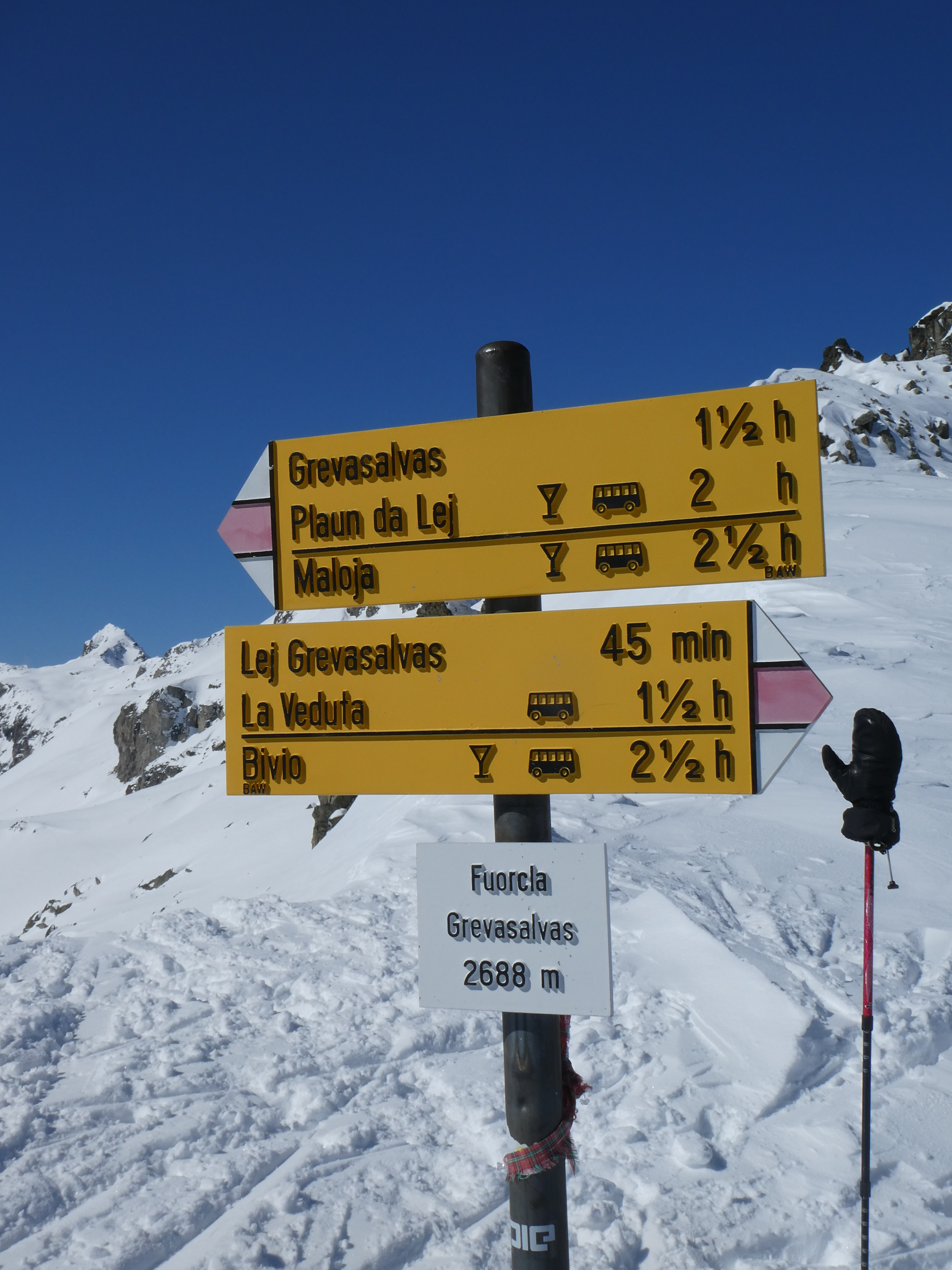 Fingerpost on Fuorcla Grevasalvas (Surses - Sils im Engadin/Segl, Grison, Switzerland)